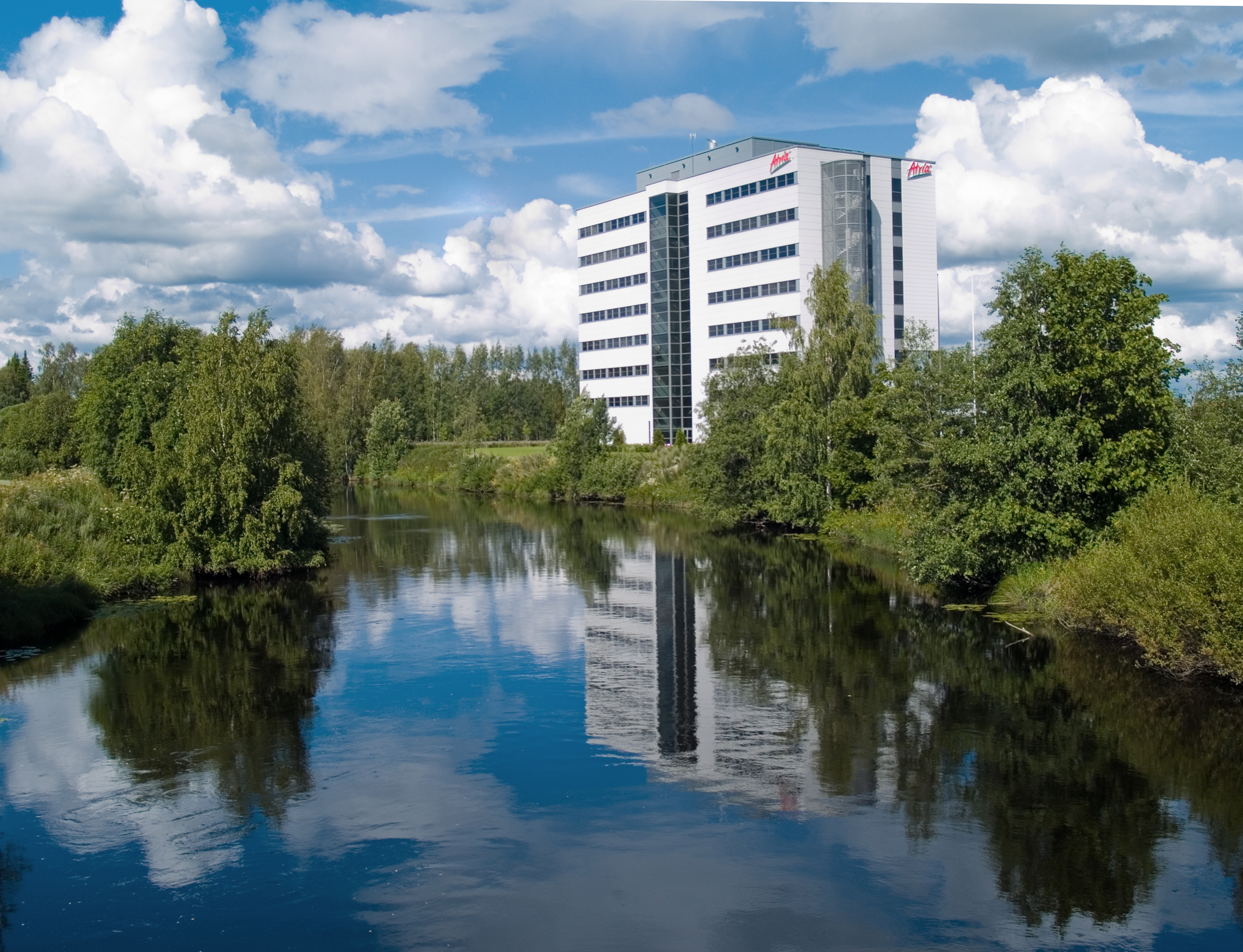 Atria meat processing company office building (sorry, not headquarters) by the Seinäjoki river, Seinäjoki, Finland.